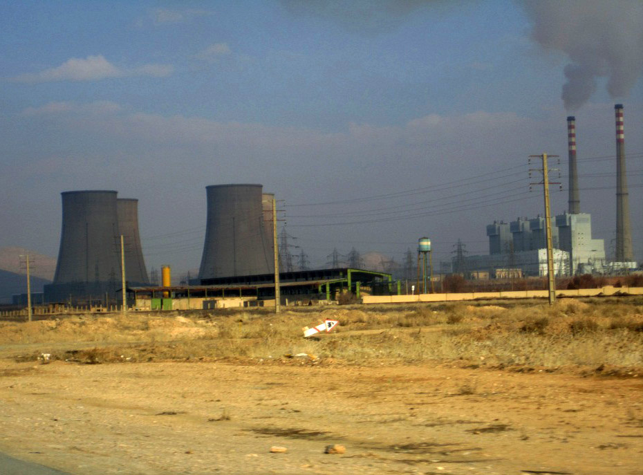 combined cycle power plant of shazand